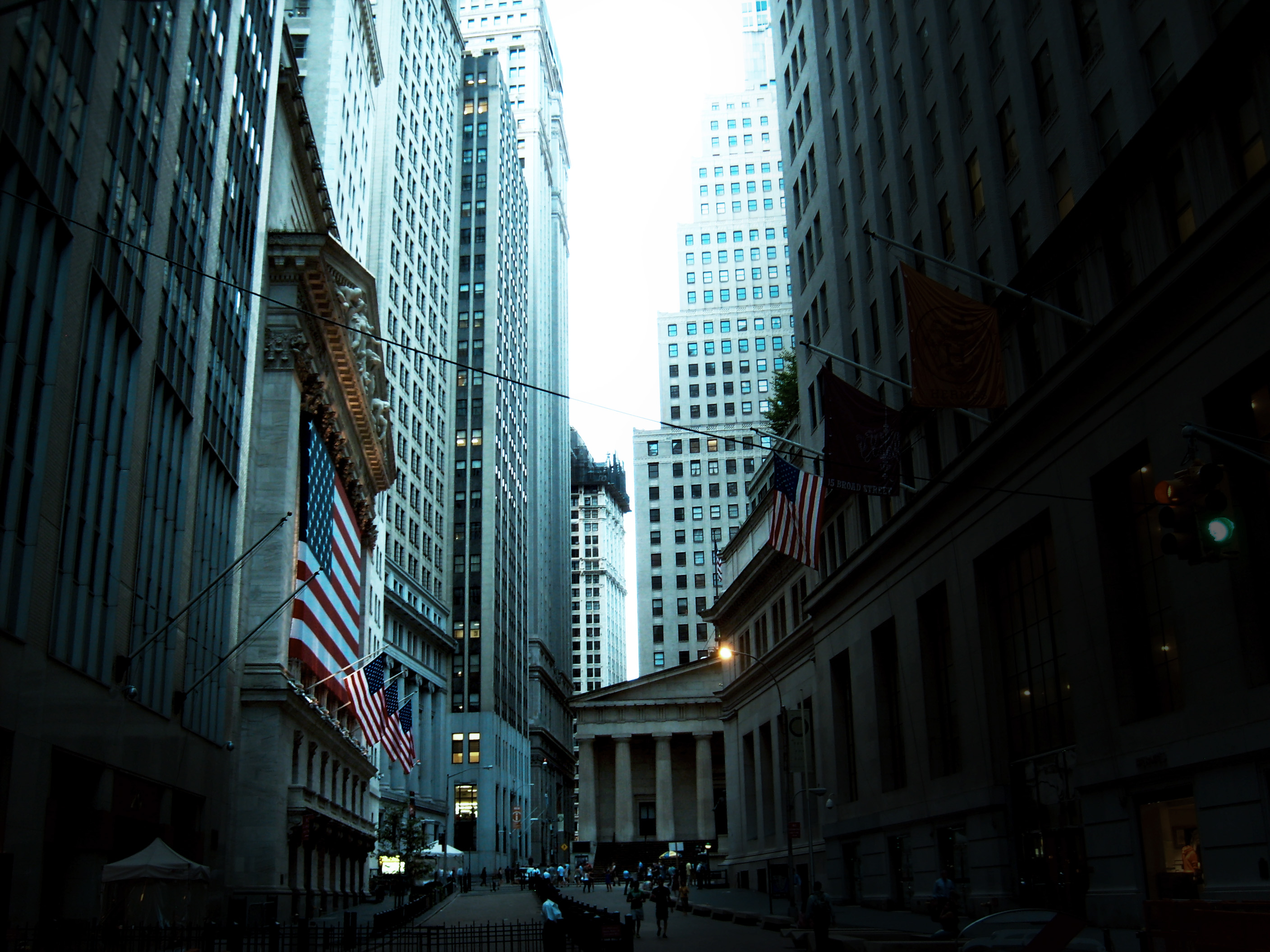 Wall Street